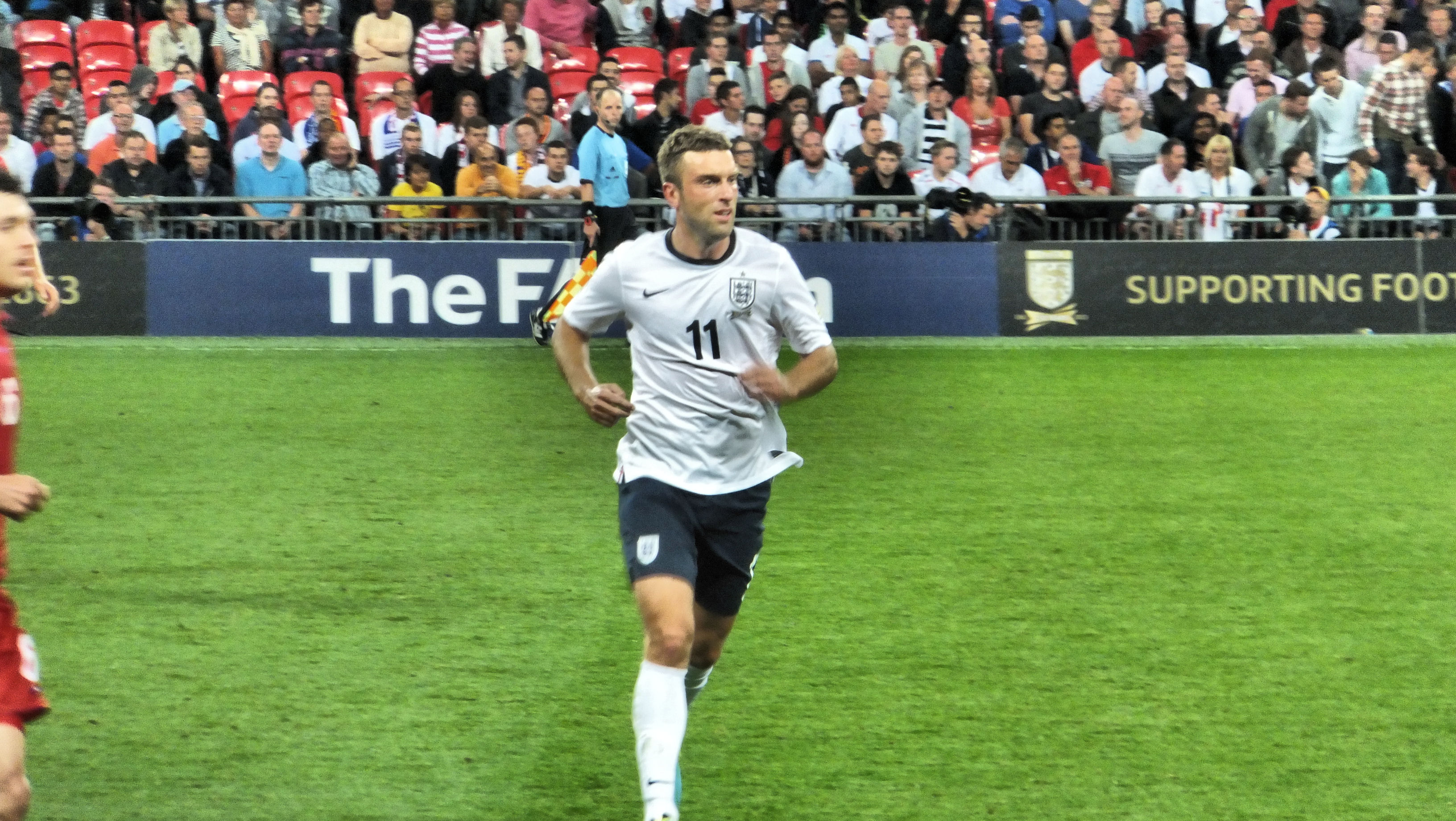 Rickie Lambert playing for England National Football Team.